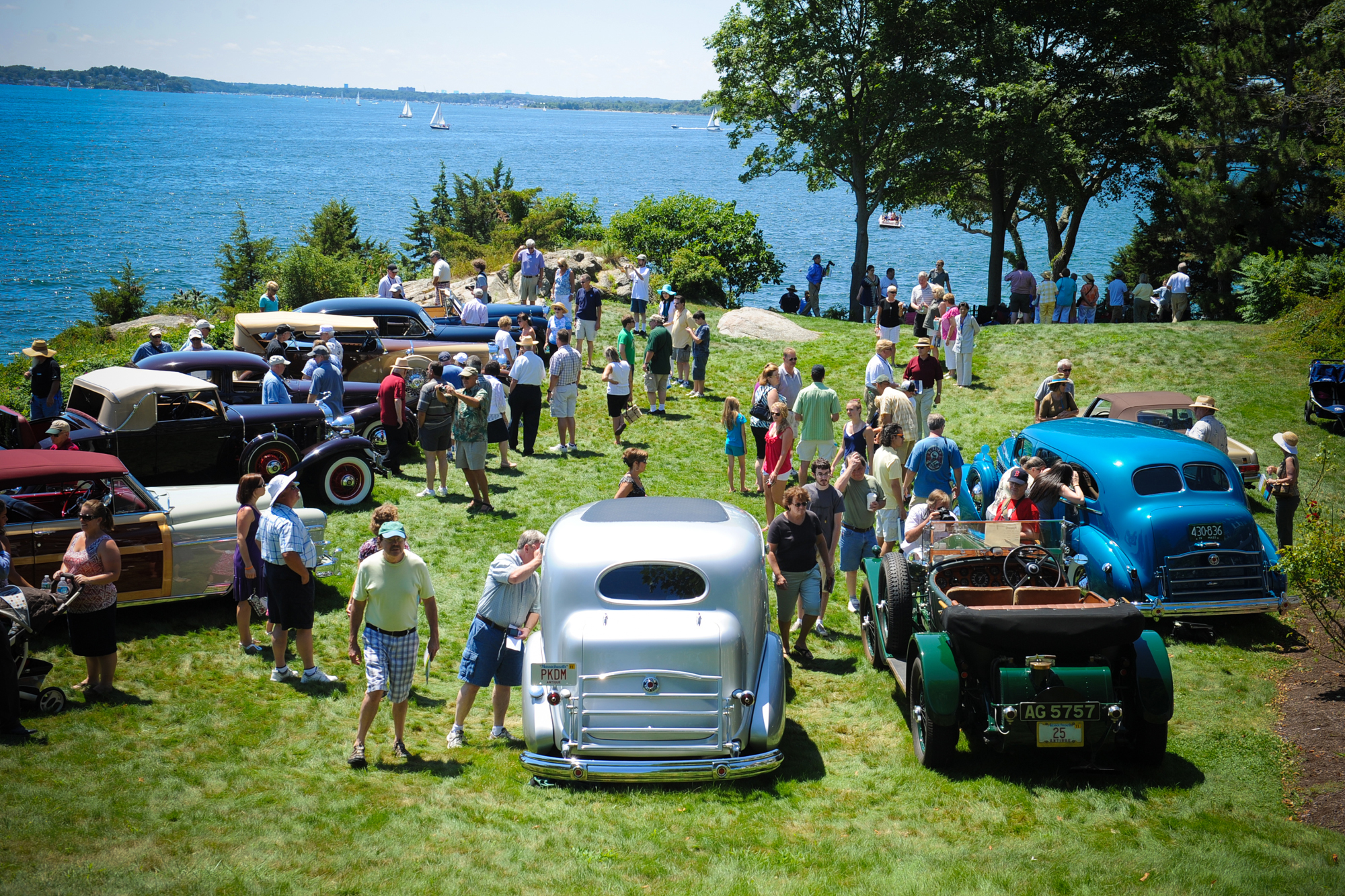 View of the main lawn of the Misselwood Concours d'Elegance